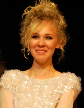 Juno Temple at the 2009 Toronto International Film Festival